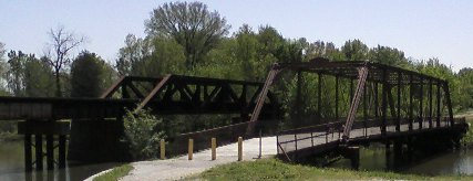 Author: rsweeney Source: Cell Phone Image Location: Kimmswick, MO